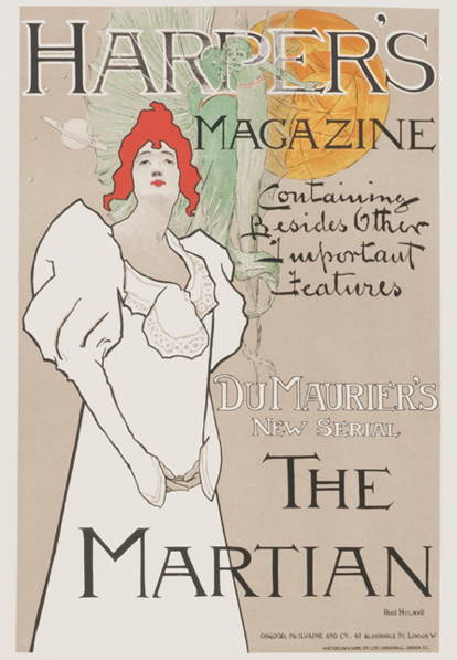 Poster for Harper's Magazine The Martian [by George du Maurier], designed by Fred Hyland [1898 ?], reproduced on a smaller size in Les Maîtres de l'affiche (Chaix, Paris, 1895-1900). Lithographic process.